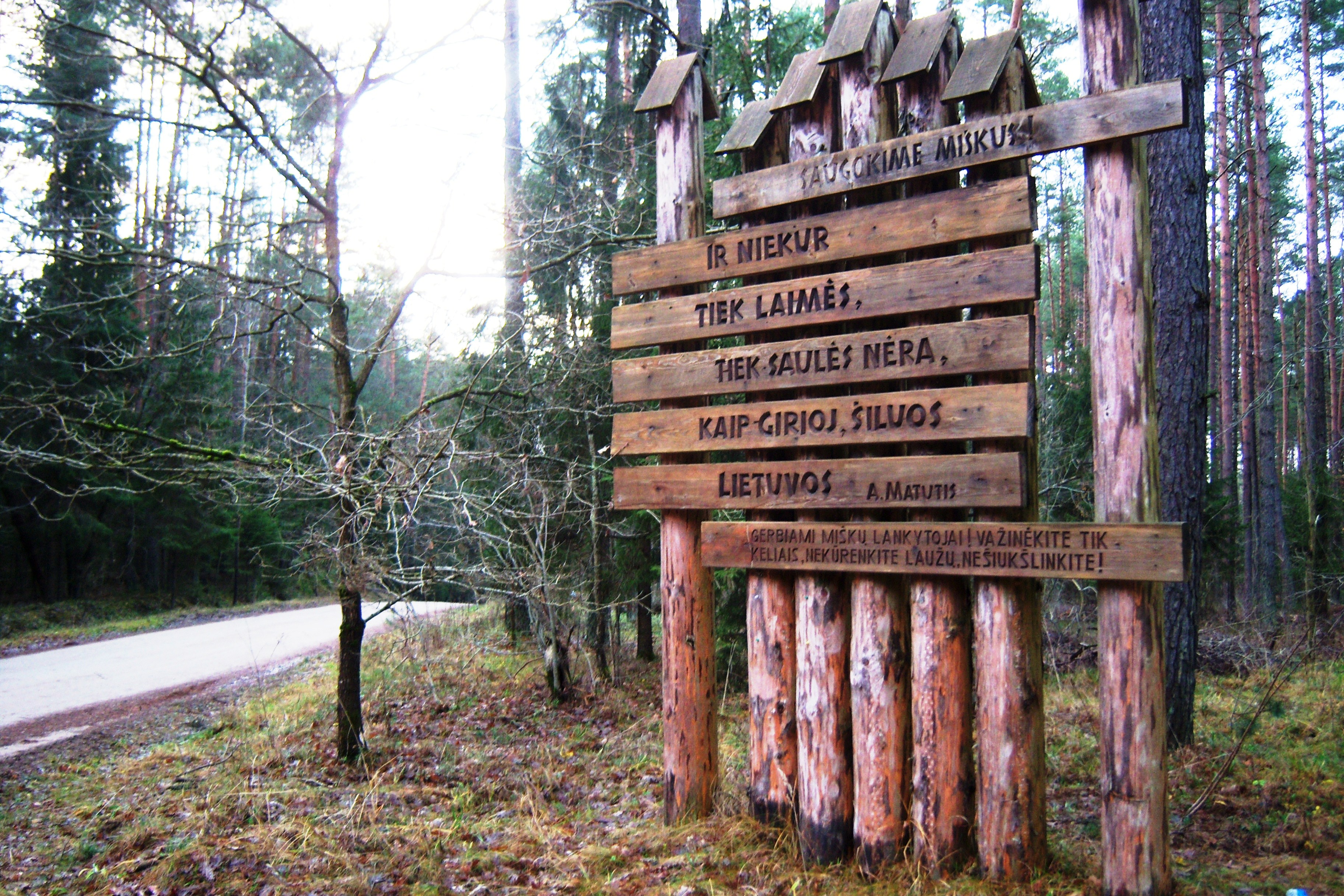 Dubrava forest, wooden pointer with poet A. Matutis' verse cut, Kaunas district, Lithuania